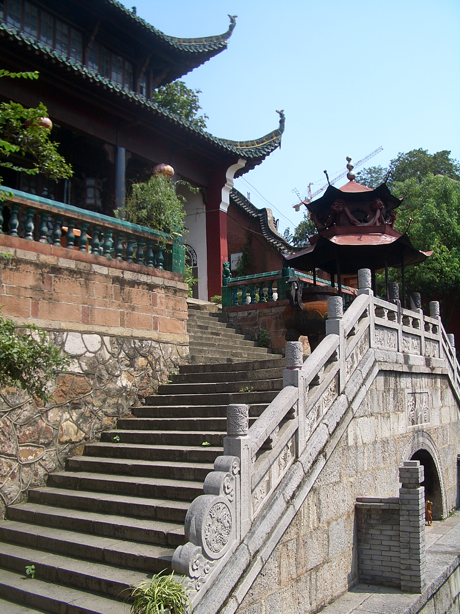 Hall of the Three August Ones (三皇殿, San Huang Dian) in Changchun Temple, Wuhan. Note the fish figures at the roof corners.